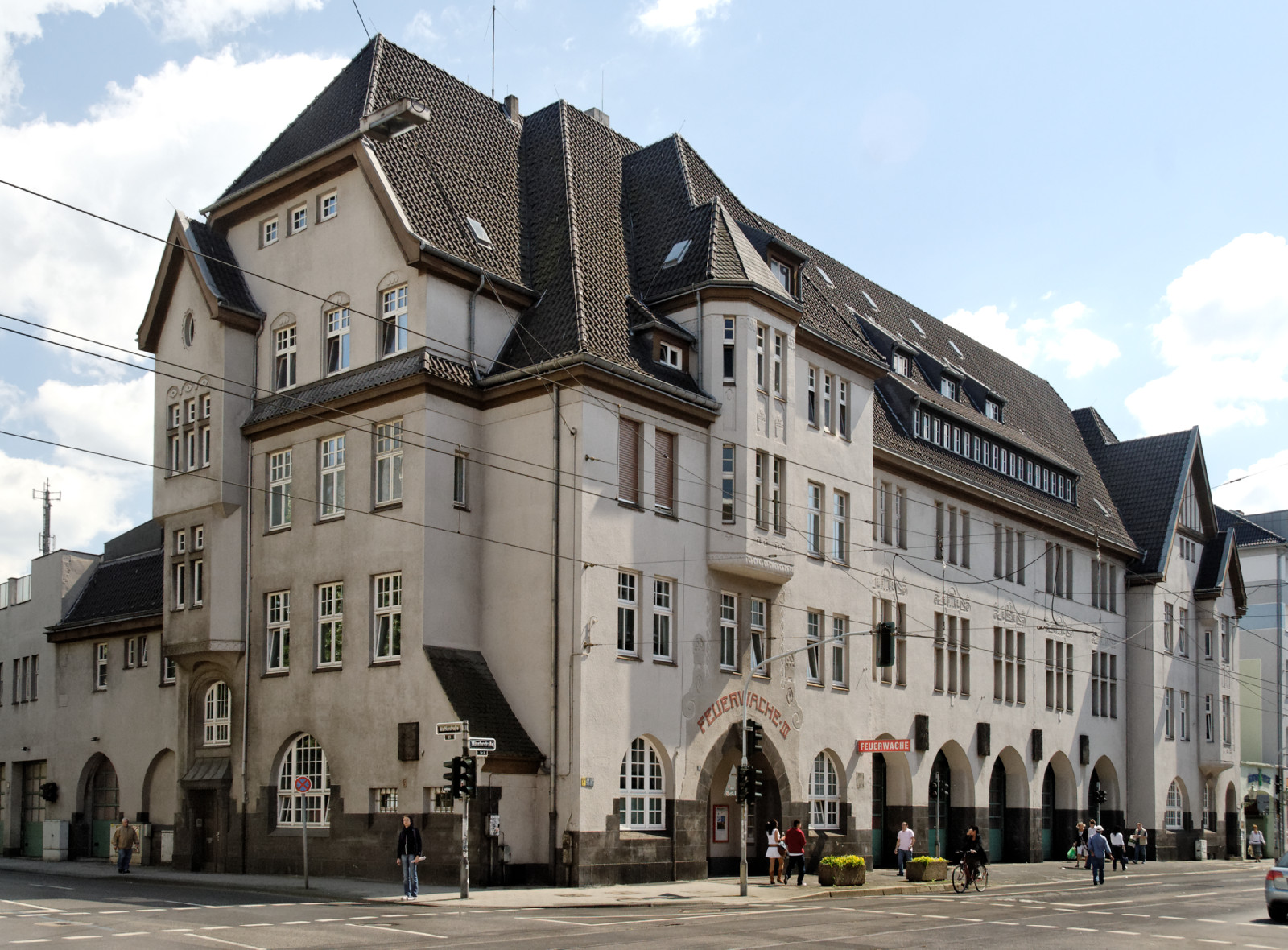 Fire station in Düsseldorf-Pempelfort, Münsterstraße 15, Germany